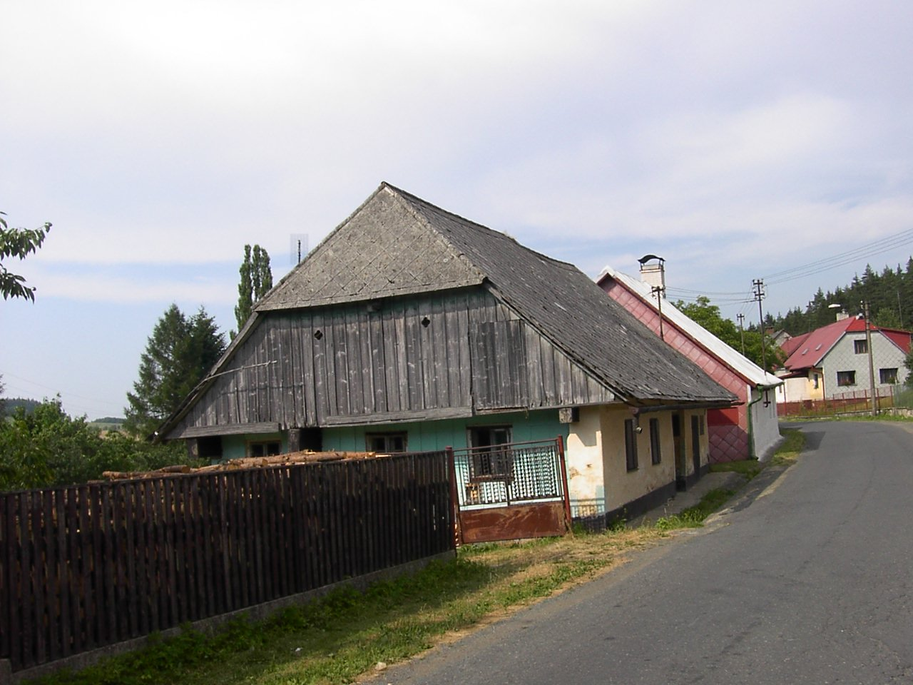 Houses in lower part of Pec, Domažlice District, Czech Republic.